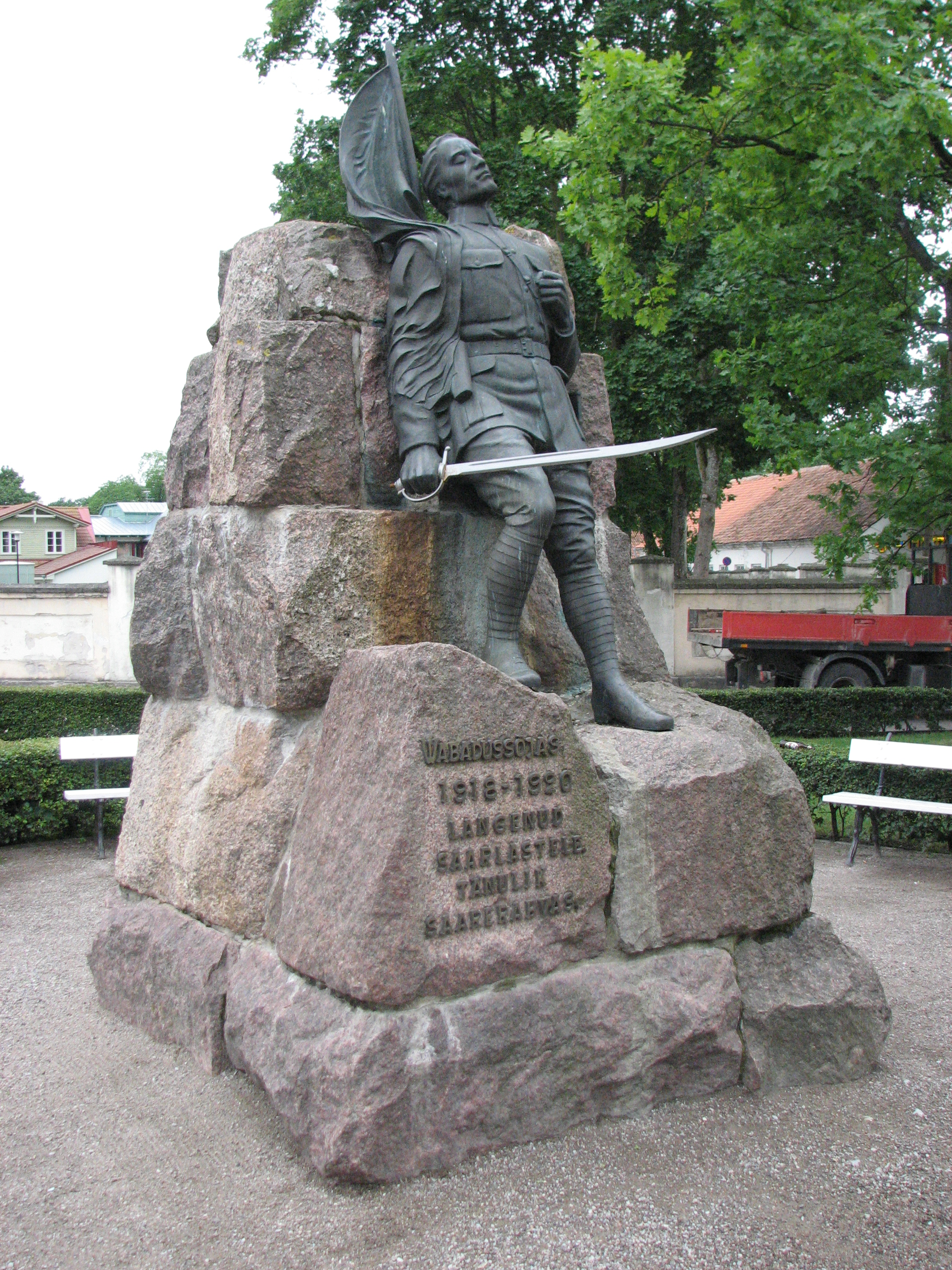 Copy of original sculpture by Amandus Adamson (1855–1929)